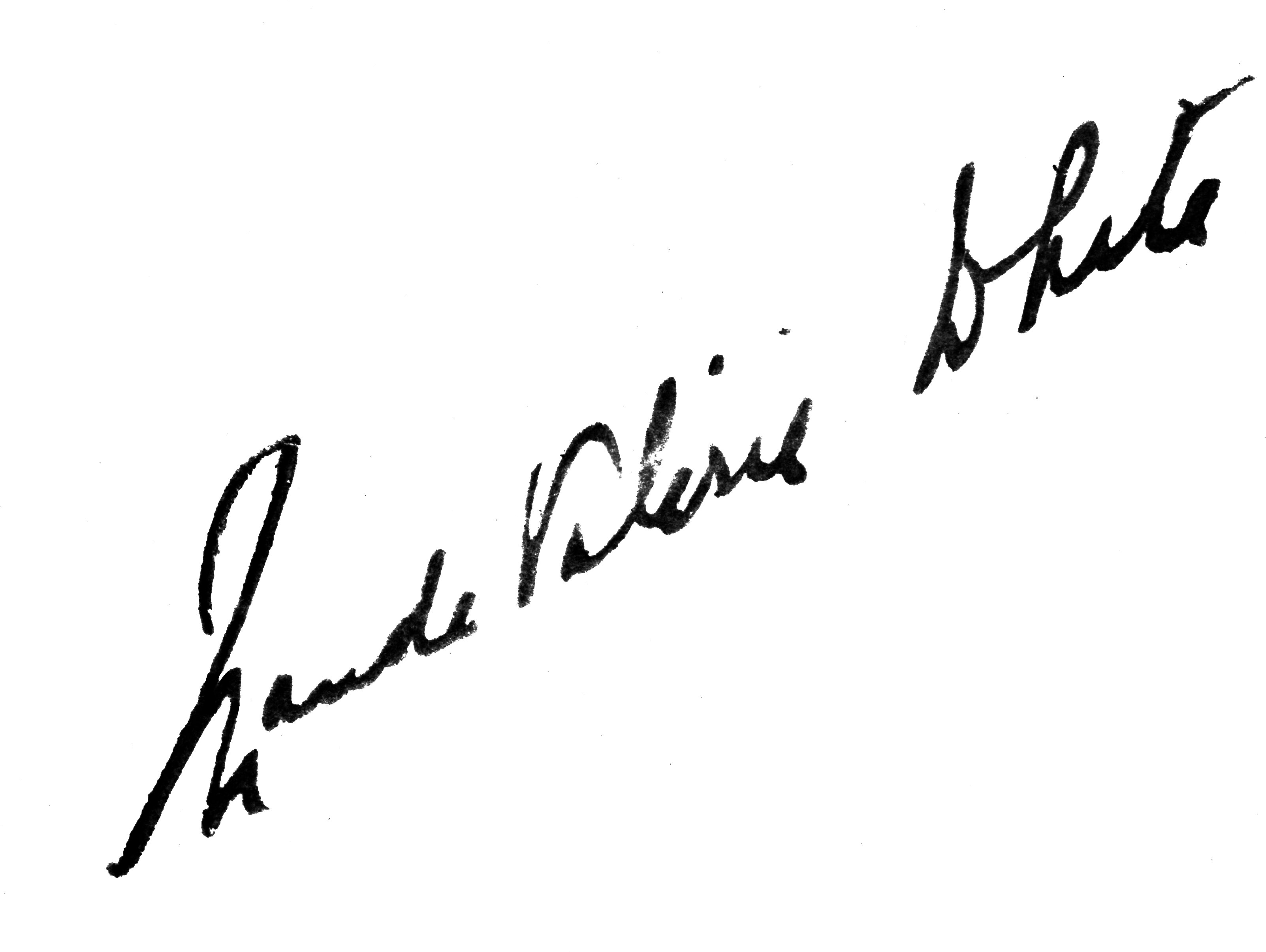 Signature by Maude Valerie White (1855 – 1937) on the front page of a children songs book